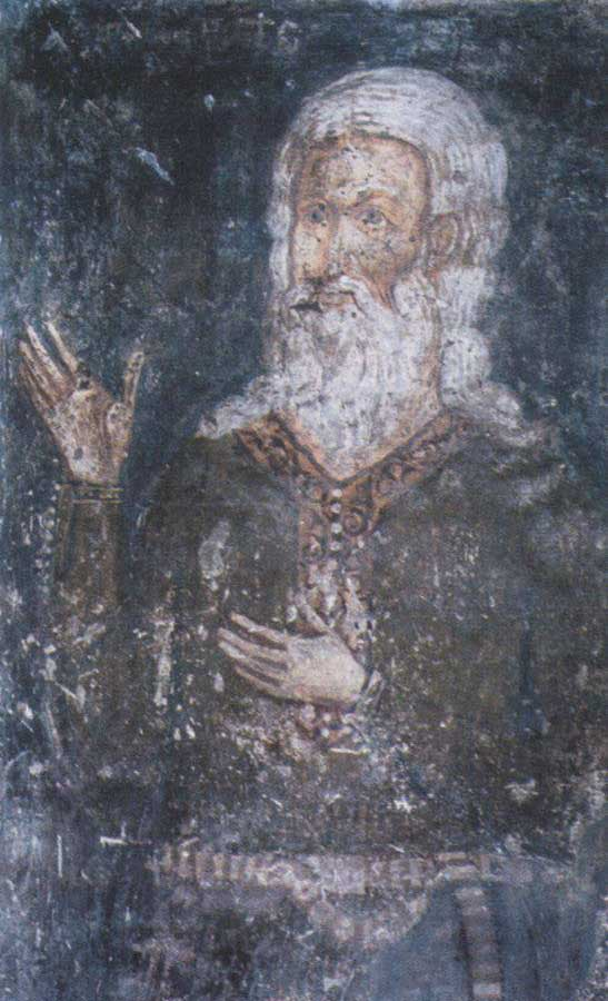 Protovestijar Stan, from the Dobrun Monastery in Višegrad, Republika Srpska, Bosnia and Herzegovina. Stan was the father-in-law of the ktitor, Pribil